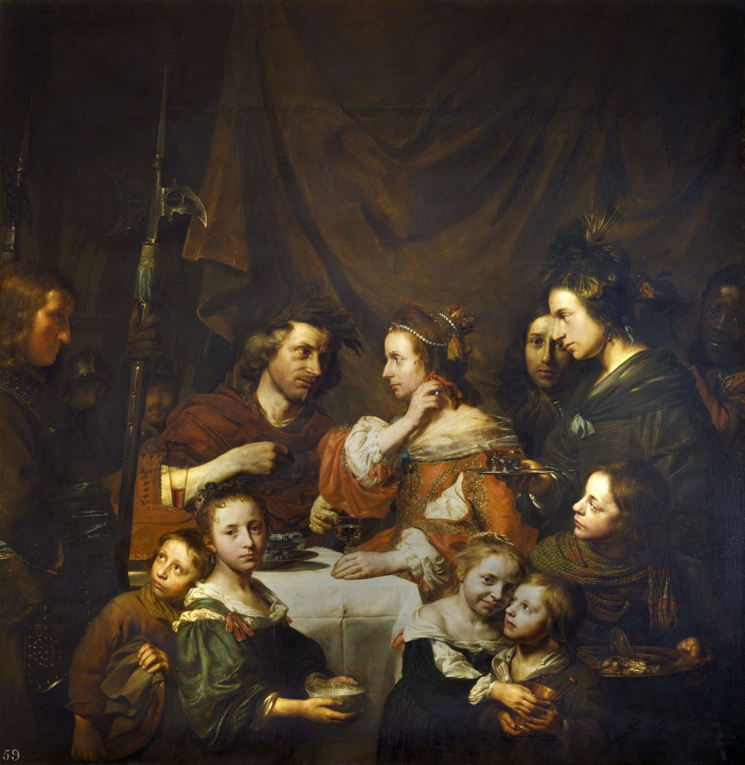 Cleopatra puts the pearl in the wine, family portrait featuring his parents in the middle and a self-portrait on the left. In the back, brother Dirck de Bray